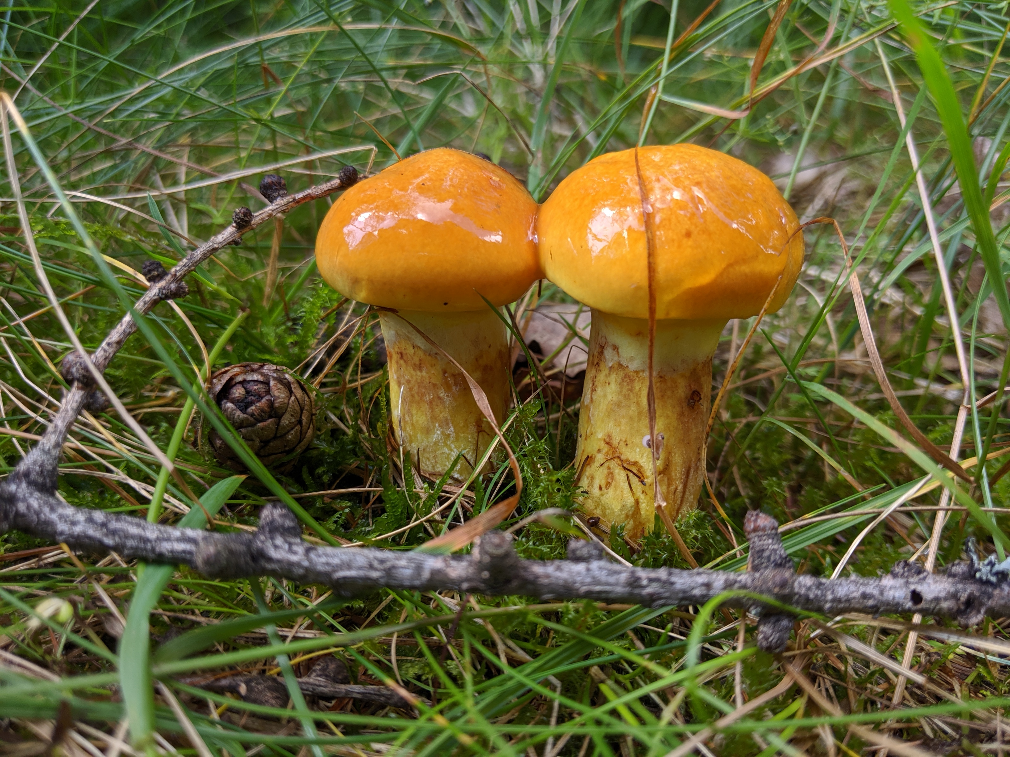 Suillus grevillei in Brdy protected area, Czechia; together with a cone and a small branch of Larix decidua, under which it commonly grows